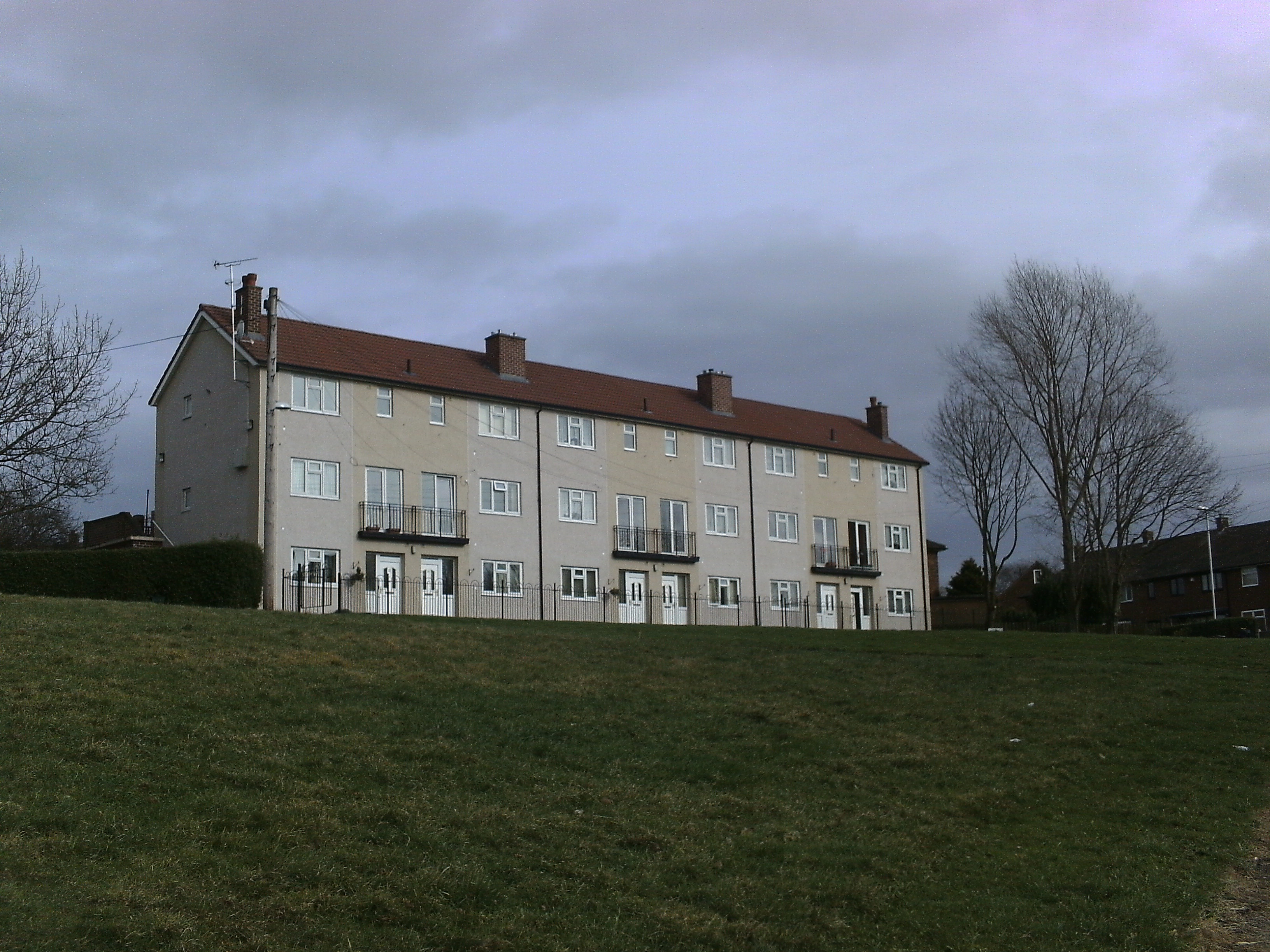 Flats on Filingfir Drive in Moor Grange, Leeds, West Yorkshire, UK.